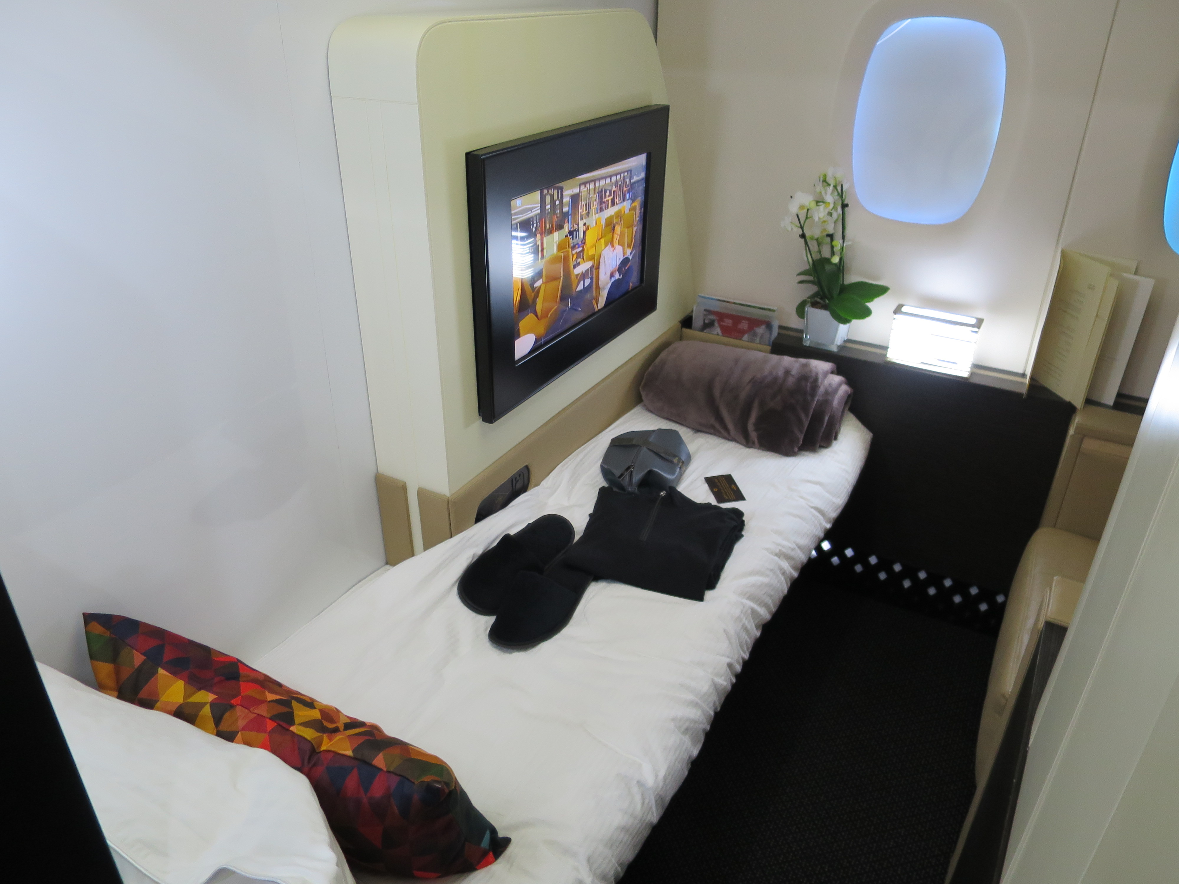 Etihad Airways aircraft interiors demo ITB 2017.